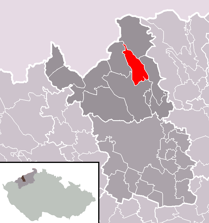 Location of Meziboří town within Most District and administrative area of Litvínov as a Municipality with Extended Competence.